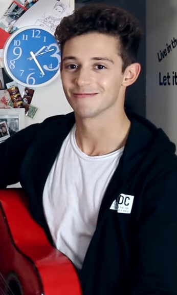 Ruggero Pasquarelli in 2016